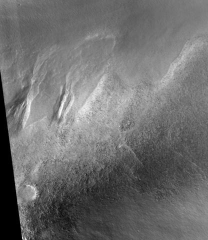 Charitum Montes Gullies, as seen by hirise. Location is 52.9 degrees south latitude and 301.2 degrees east longitude. Image was taken by the Mars Reconnaissance Orbiter's HiRISE. The HiRISE camera was built by Ball Aerospace and Technology Corporation and is operated by the University of Arizona. Image courtesy NASA/JPL/University of Arizona.